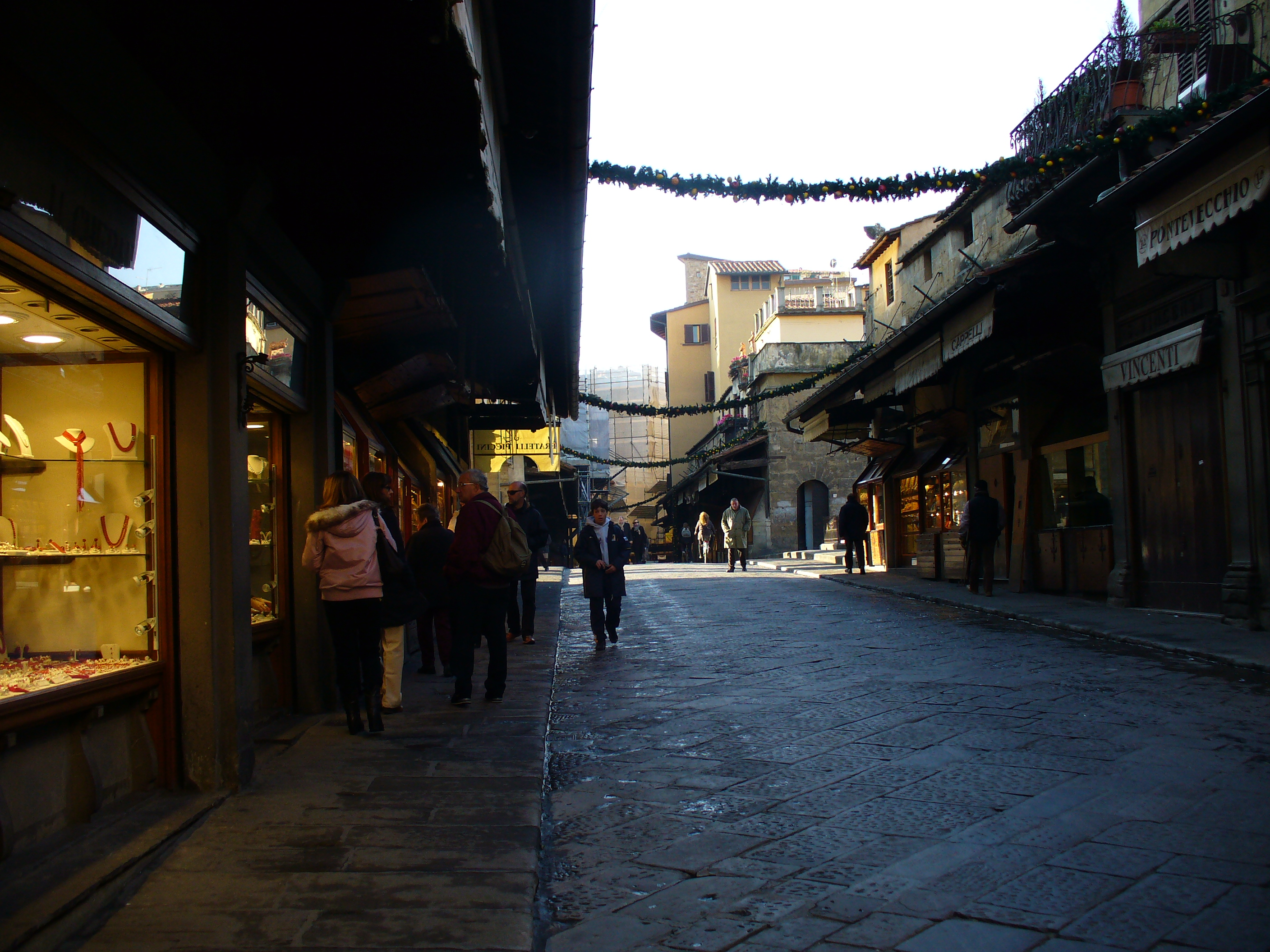 Ponte Vecchio Firenze